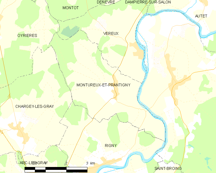 Map of French municipality